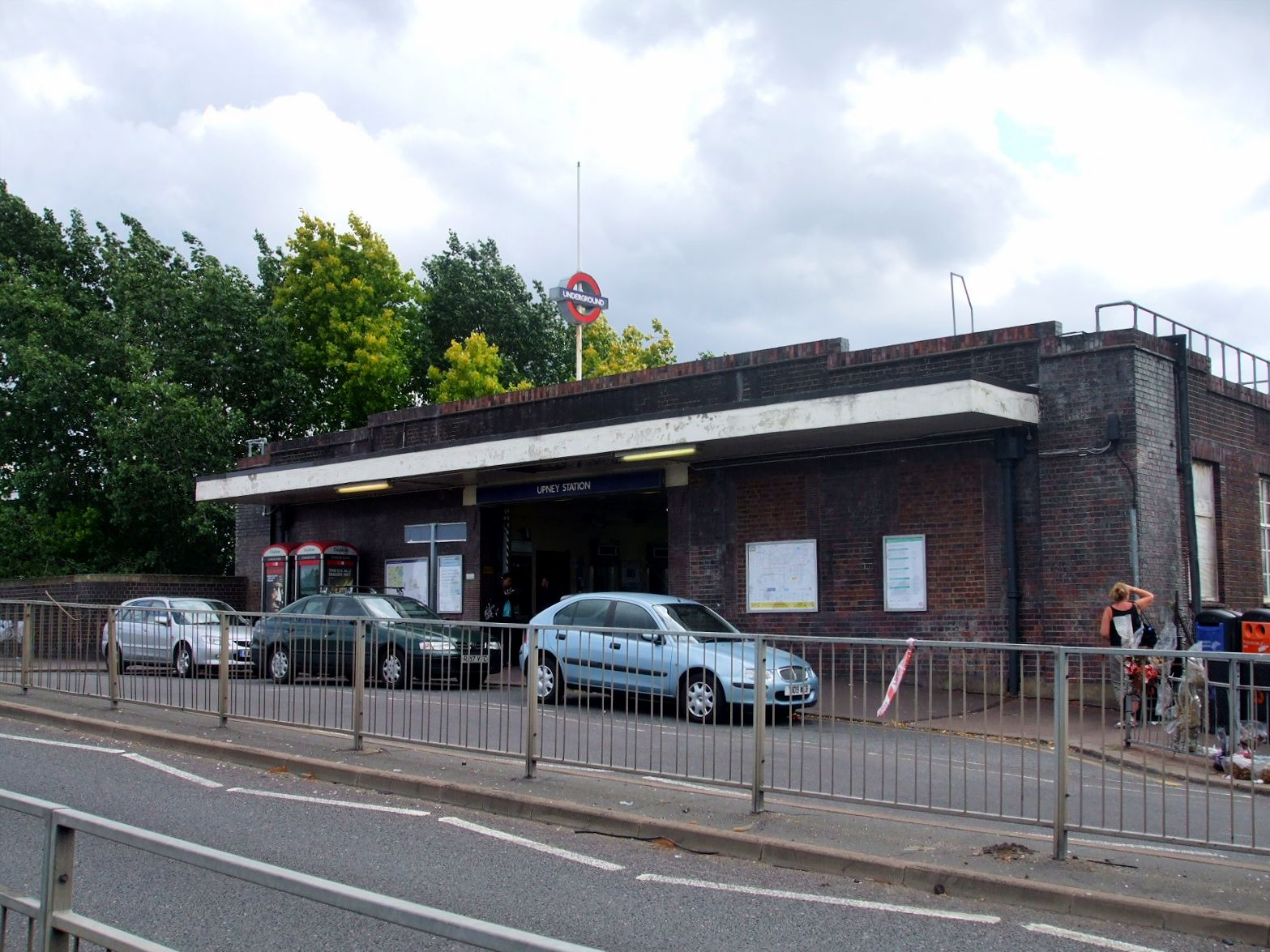 Upney tube station building